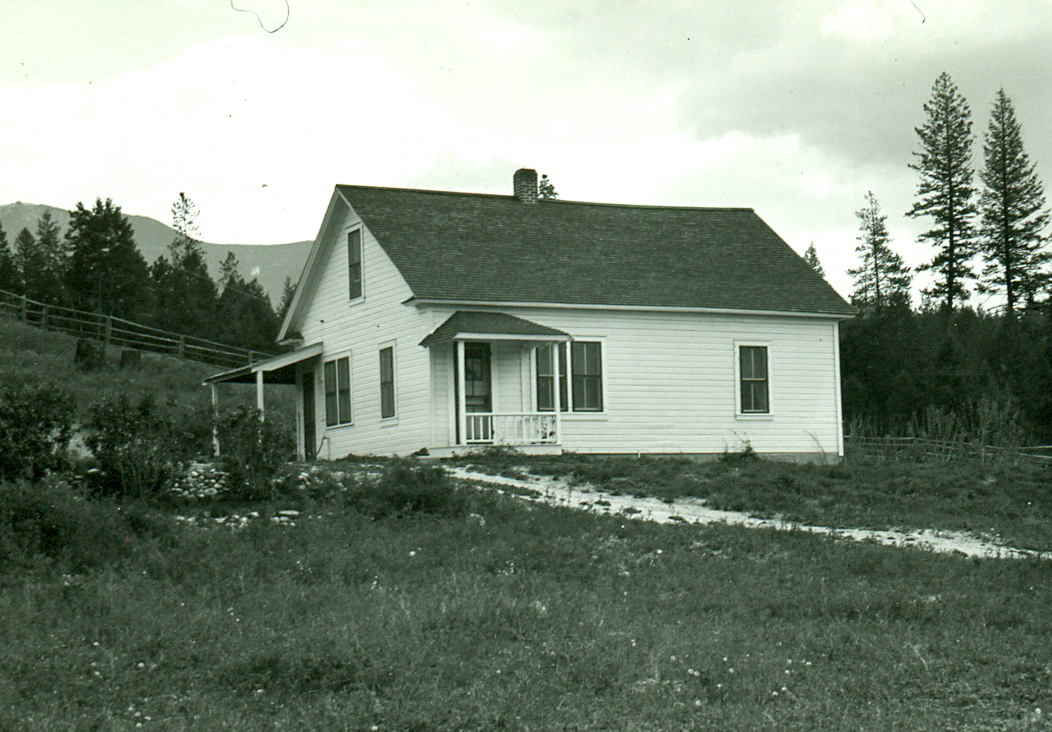 The ranger's residence at the Ant Flat Ranger Station, Kootenai National Forest, Fortine, Montana.